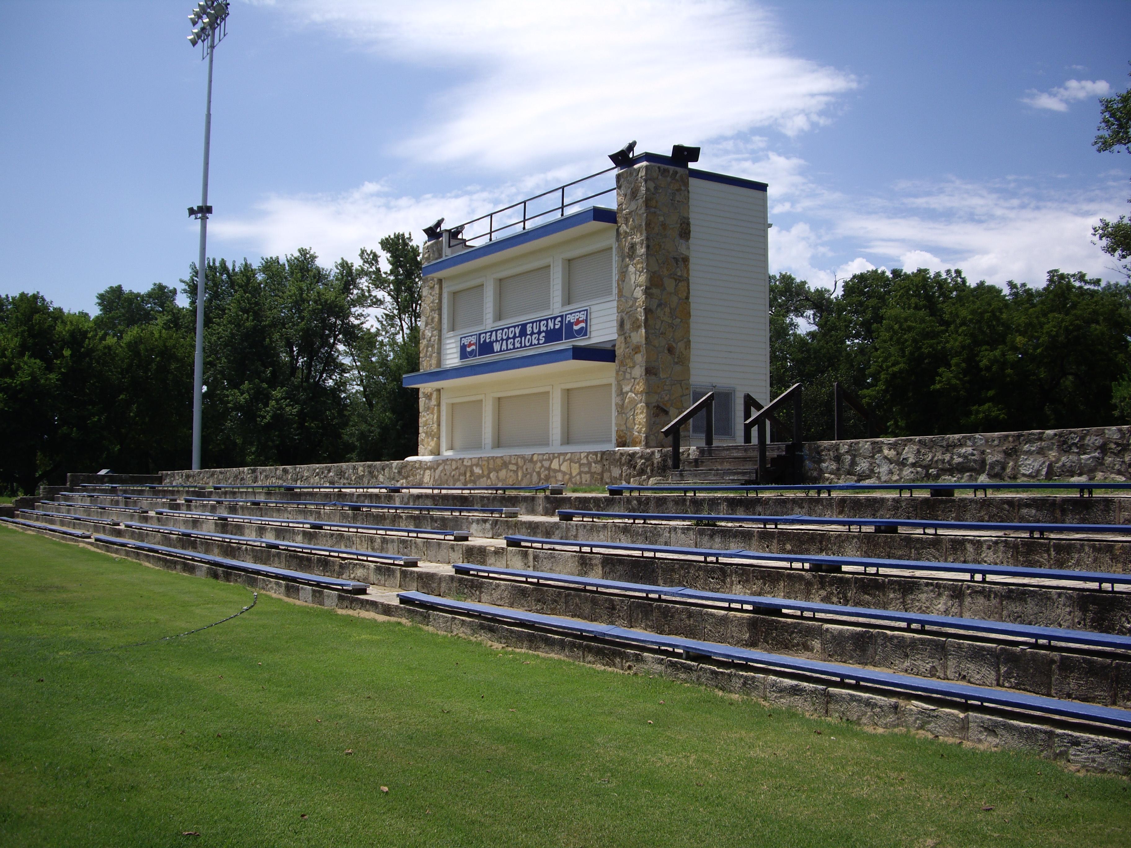 Historic 1938 Football Stadium at Peabody City Park, west of Locust St and 2nd St, Peabody, Kansas, 66866, USA. Looking southwest. Photo by Steve Meirowsky on August 4, 2010.